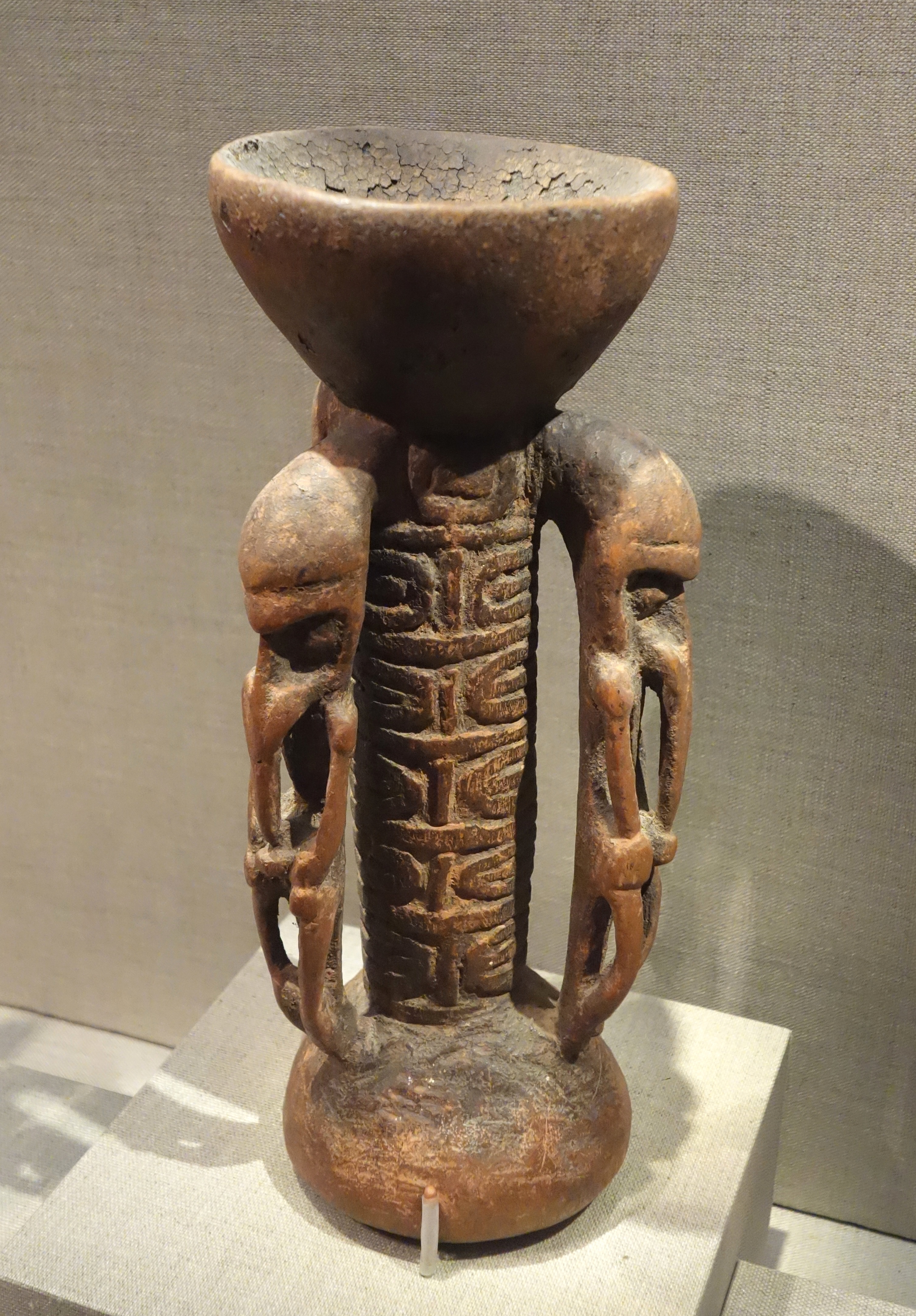 Exhibit in the De Young Museum, San Francisco, California, USA. This artwork is in the public domain because the artist died more than 70 years ago.